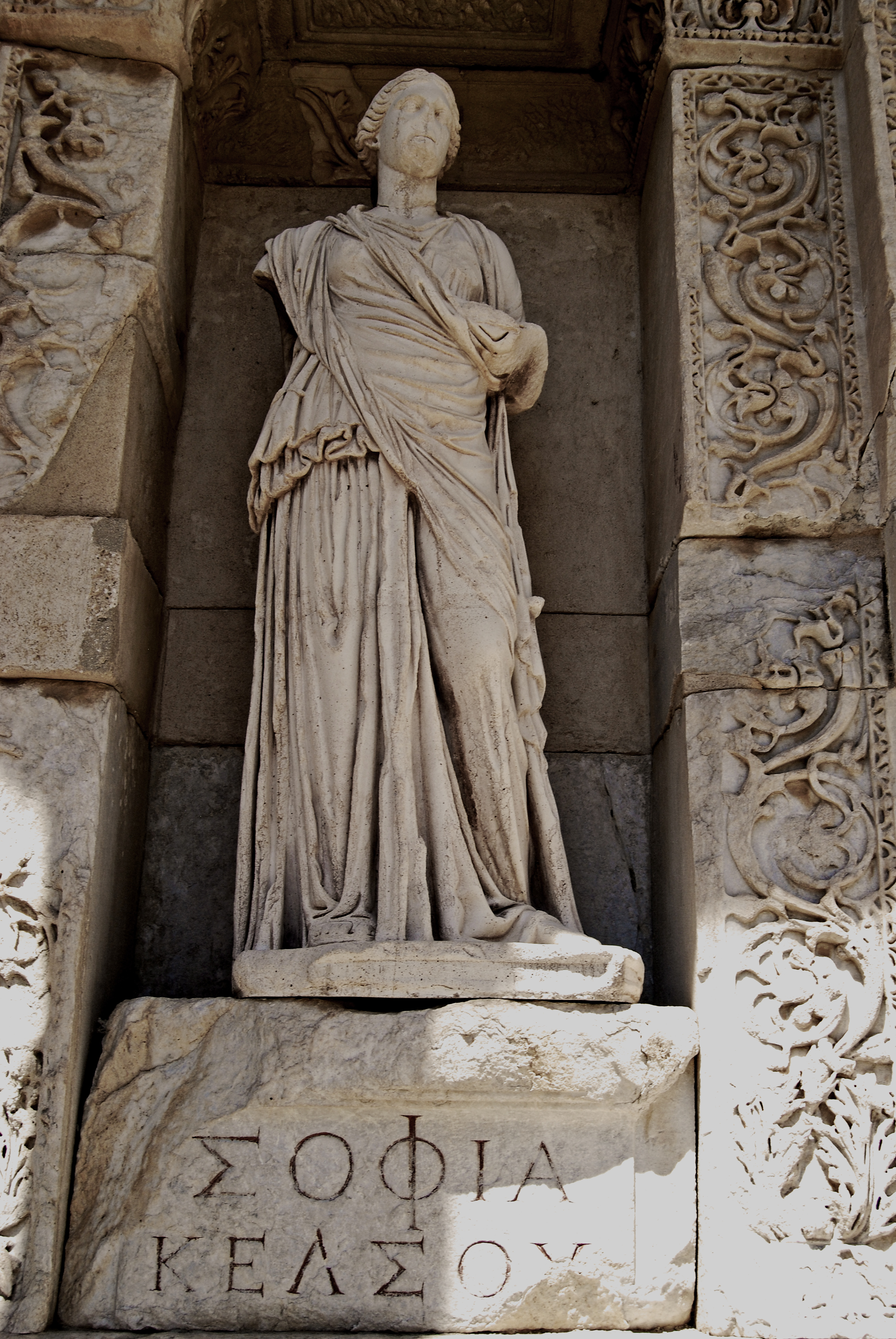 Statue of Sophia (wisdom) Sophia (Wisdom) in the Celsus Library in Ephesus, Turkey, home of the philosopher Heraclitus.